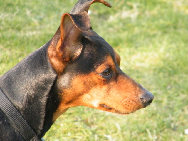 Face of pinscher (D'Looping De La Vigne Aux Vents)